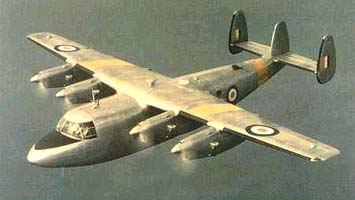 Photo taken by an employee of the British government prior to 1956. Original photo is found on:[1]